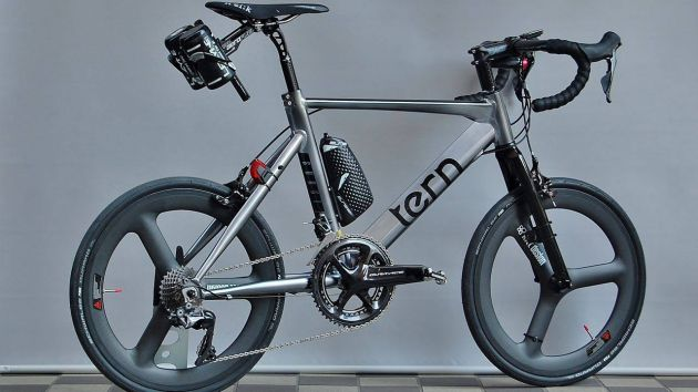 Tern BXR with Mixed Aluminum + Carbon Fiber